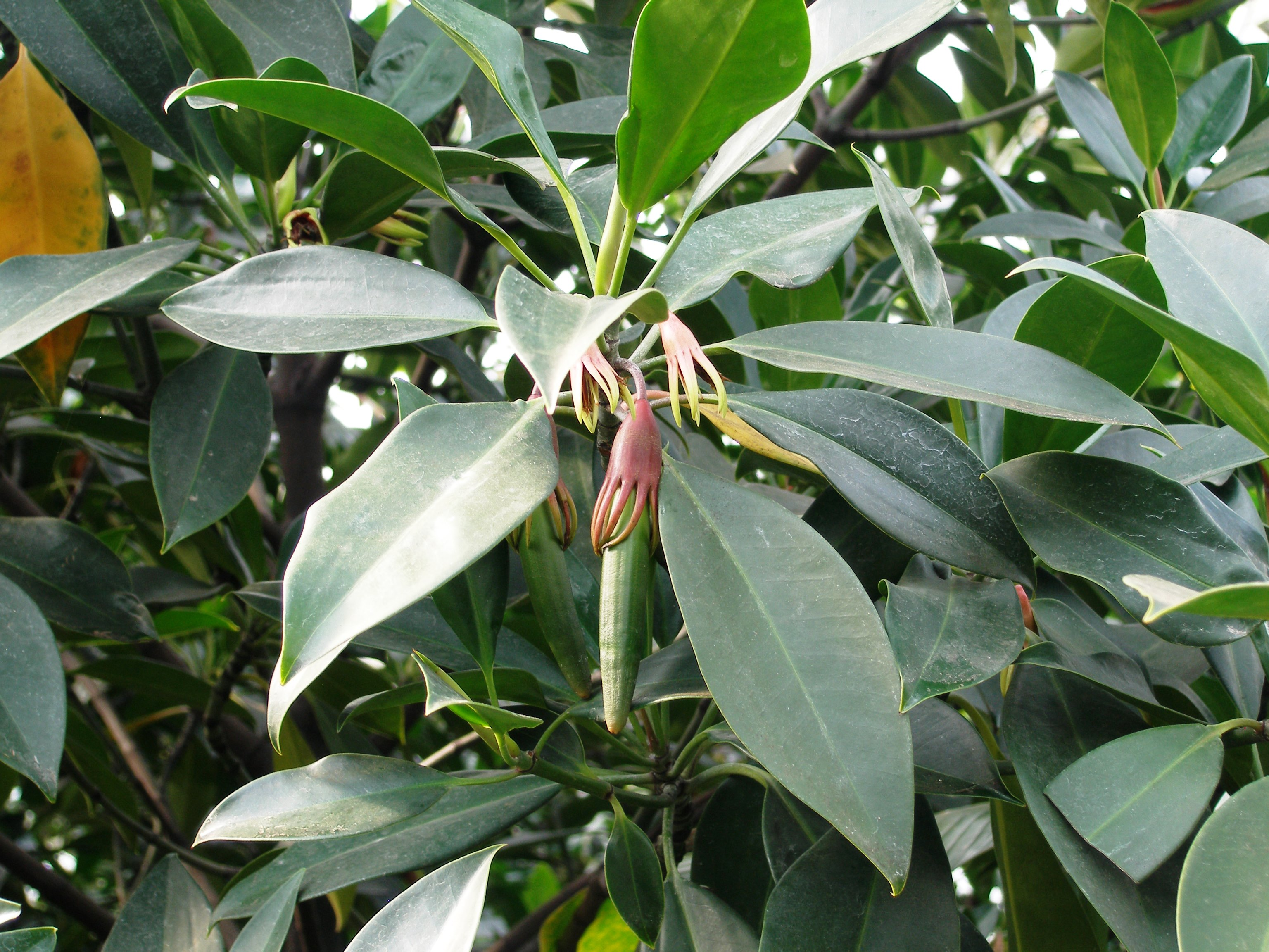 Specimen in cultivation at the Royal Botanic Gardens, Kew, United Kingdom.